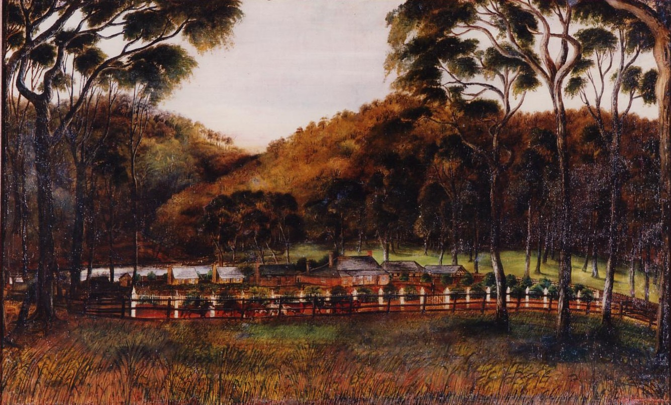 Reproduction of painting of Southampton Homestead (1864) by William Benson (